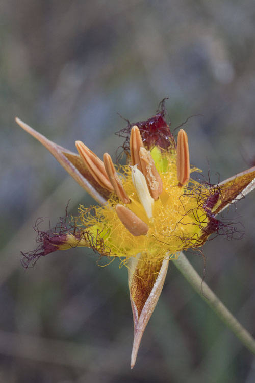 San Luis Mariposa Lily, San Luis Obispo Star Tulip, (Calochortus obispoensis). Laguna Lake Open Space, San Luis Obispo, CA